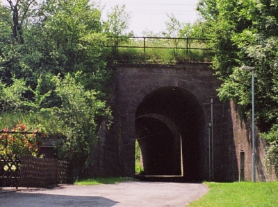 Two Railway bridges in Arenshausen, Thuringia, Germany